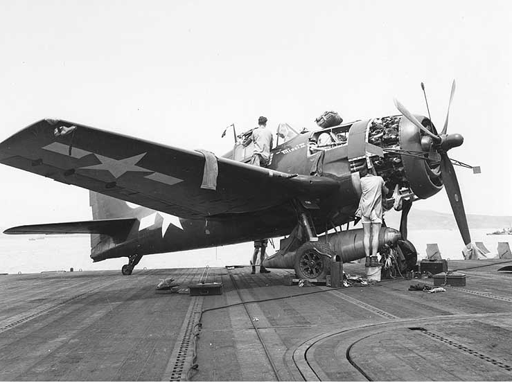 A U.S. Navy Grumman F6F-5 Hellcat fighter undergoing maintainance on board the aircraft carrier USS Essex (CV-9), which is at anchor off Saipan, on 30 July 1944. This plane is "Minsi II", belonging to the Essex Air Group Commander, Commander David McCampbell, USN.